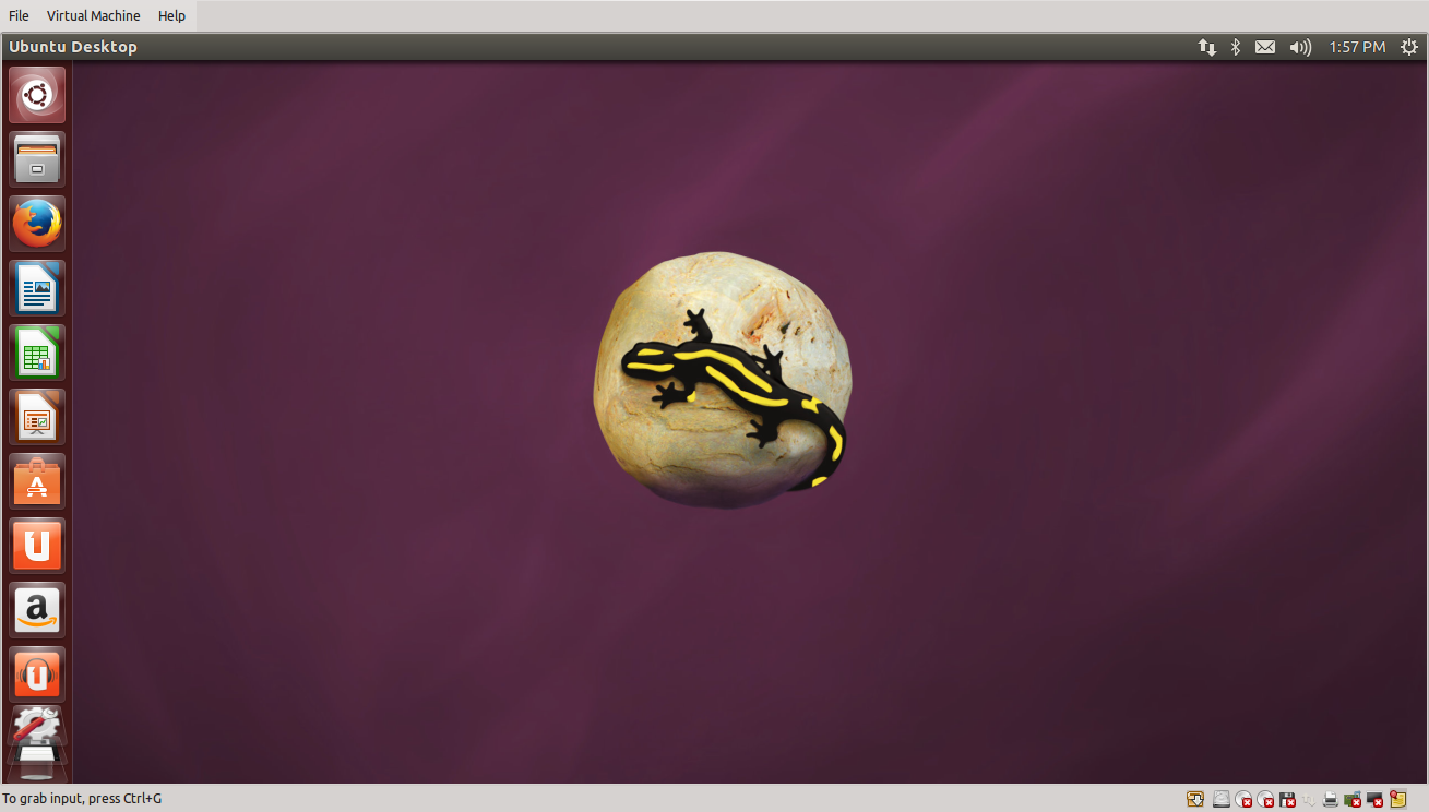 Screenshot showing Ubuntu 14.04 running on VMware Player 6.0 running on Ubuntu 12.10